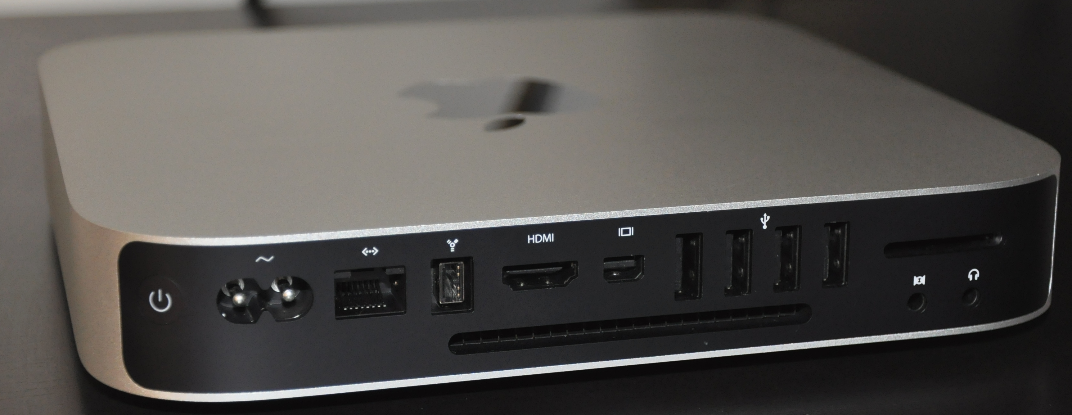 Photograph of input and output ports for 2010 Unibody Mac Mini